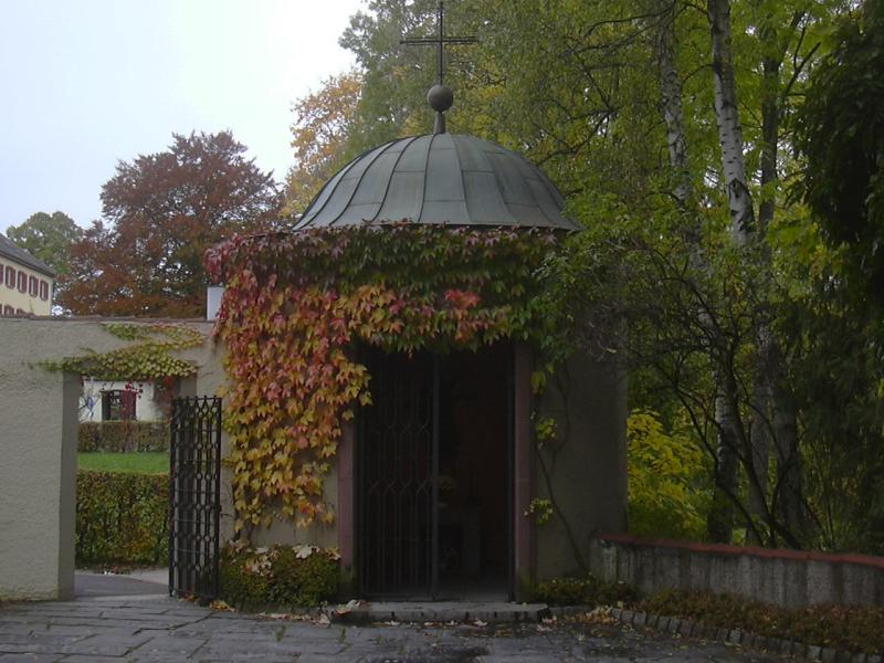 Memorial chapel for the Stauffenberg brothers (Claus and Berthold) in Albstadt, Germany